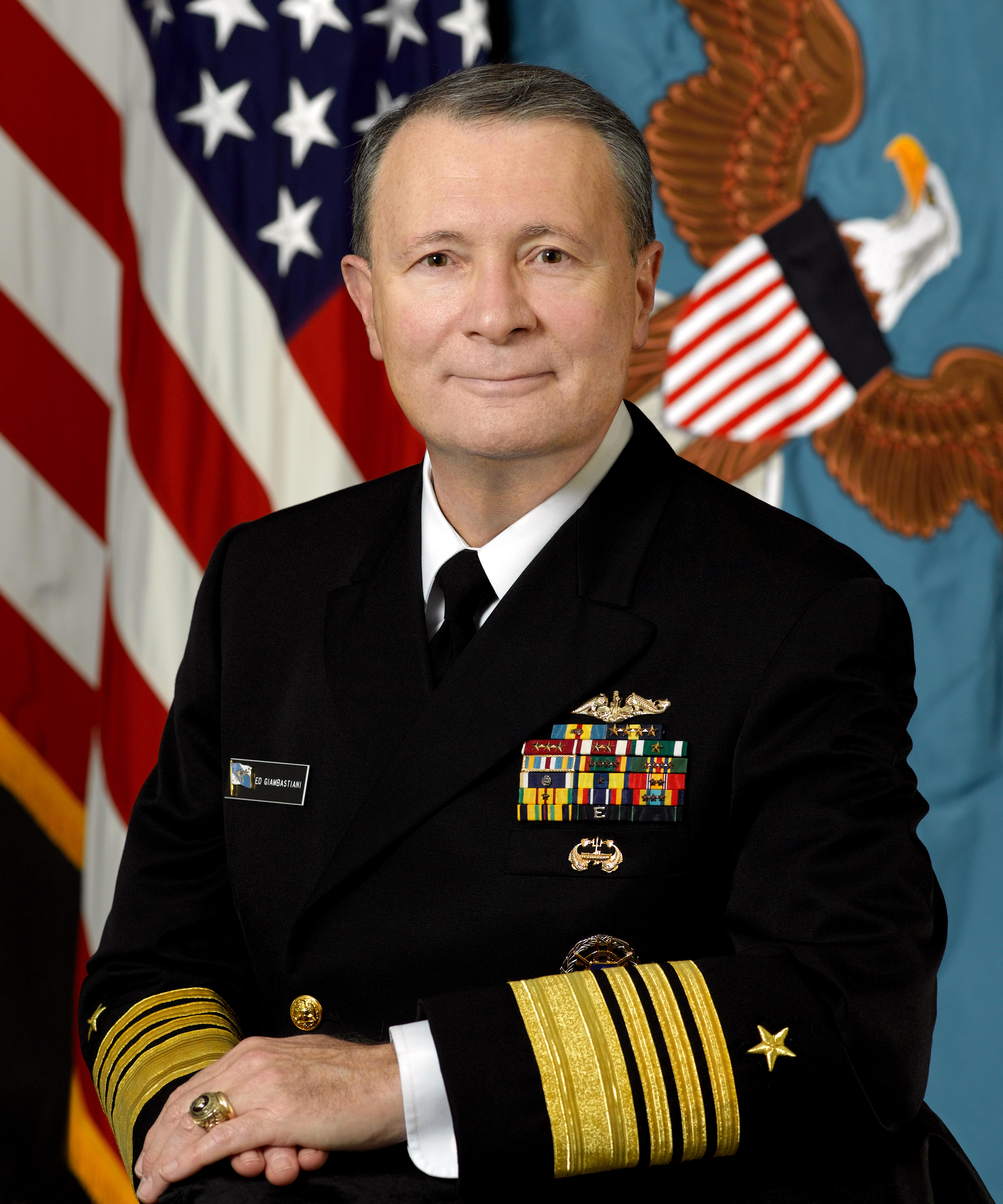 Admiral Edmund Giambastiani of the United States Navy in February 2007, during his tenure as the Vice Chairman of the Joint Chiefs of Staff.